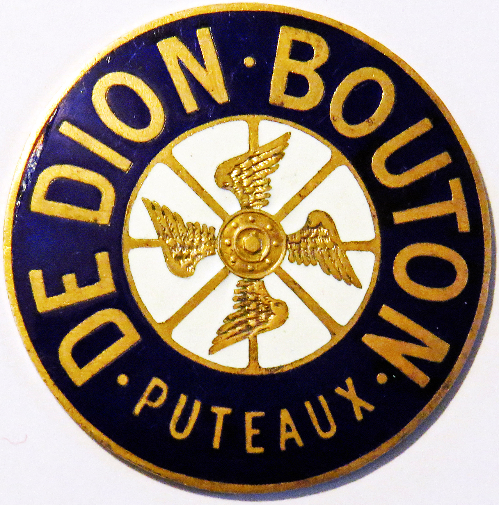 DE DION-BOUTON bronze radiator emblem enamel stamps manufactured between 1908 and 1916 .